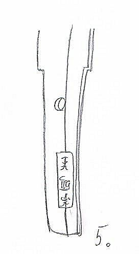 Types of the Nakago after shortening of japanese swords 2